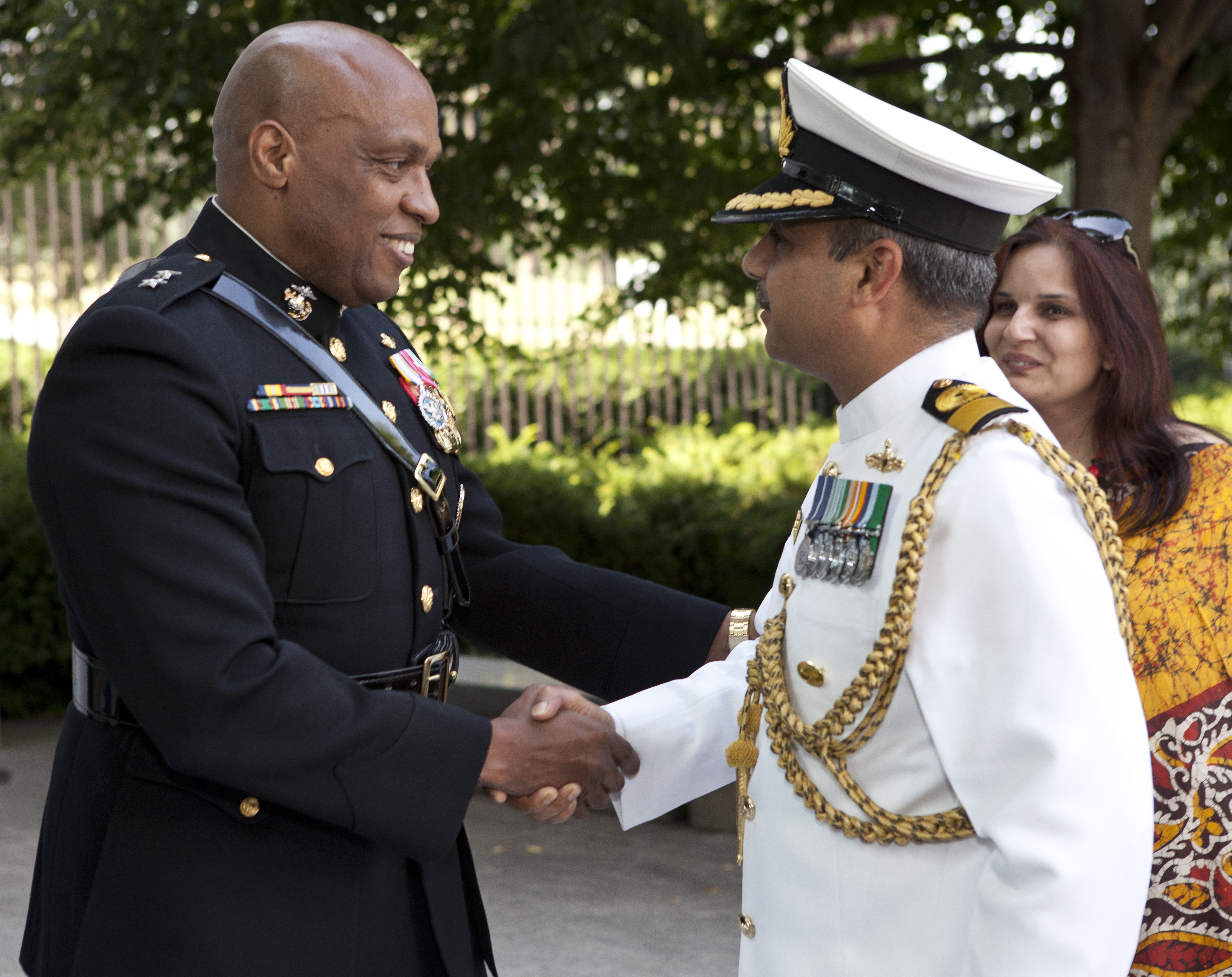 U.S. Marine Corps Maj. Gen. Vincent R. Stewart, left, the director of intelligence at Headquarters Marine Corps and the Sunset Parade host, exchanges greetings with Indian navy Commodore Alok Bhatnagar, the parade guest of honor, during the parade reception at the Women in Military Service for America Memorial at Arlington National Cemetery in Arlington, Va., June 25, 2013. A Sunset Parade was held every Tuesday during the summer months. (U.S. Marine Corps photo by Cpl. Tia Dufour/Released)